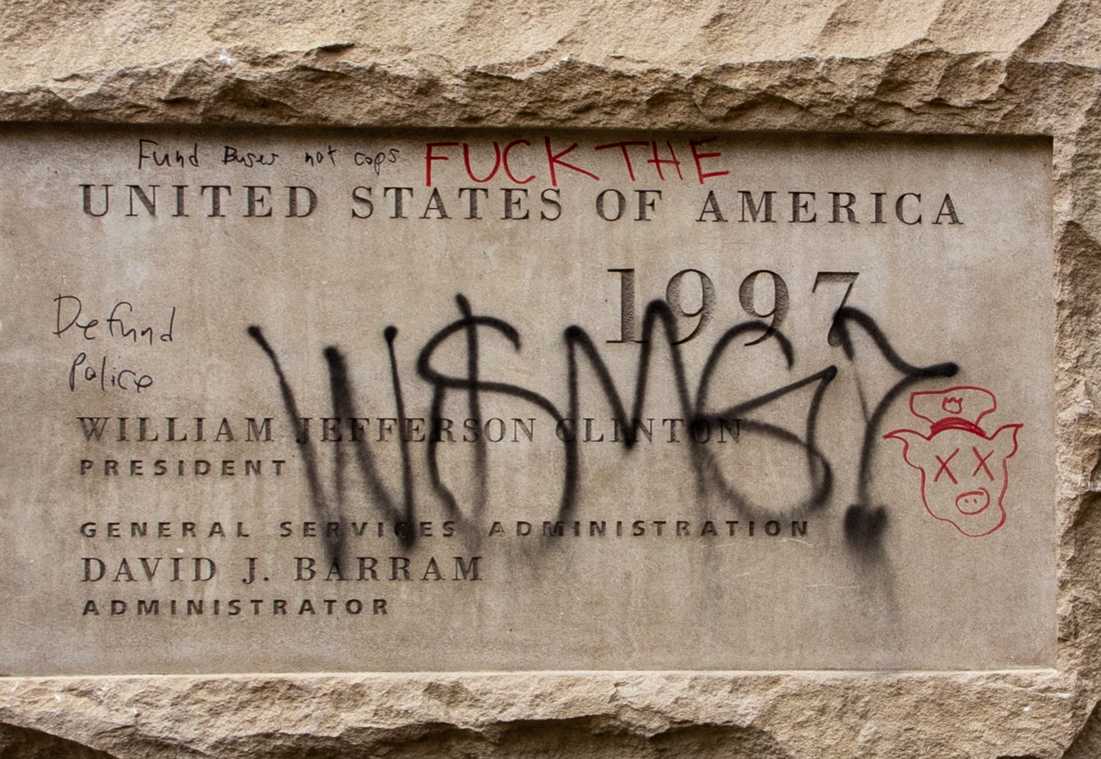 Writing on cornerstone of Mark O. Hatfield Courthouse during George Floyd protests in Portland, Oregon.